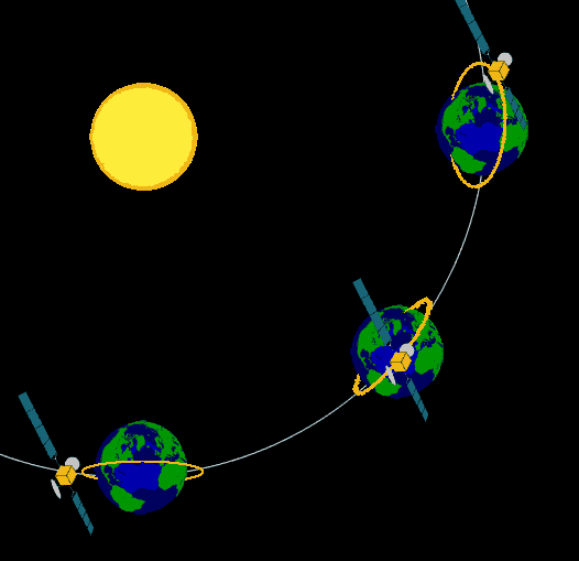 The plane of a sun-synchronous orbit is not fixed in space relative to the distant stars, but rotates slowly about the Earth's axis .